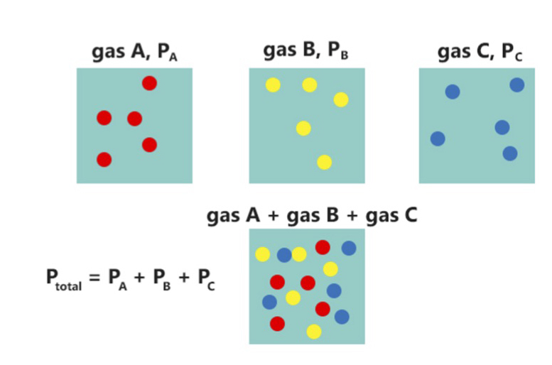 Schematic showing the concept of Dalton's Law.